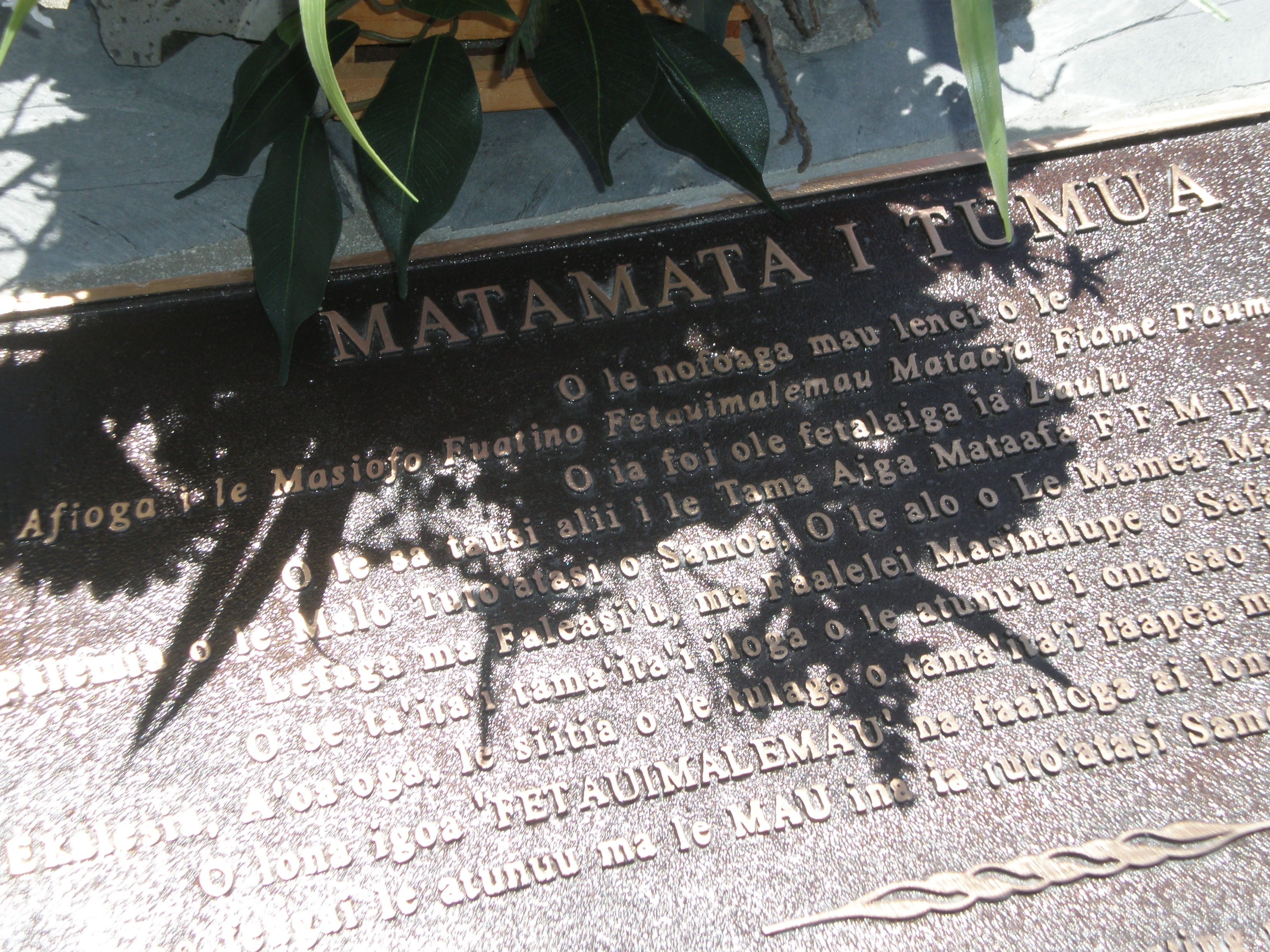 Tombstone close up of Laulu Fetauimalemau Mata'afa, Lotofaga village, Samoa